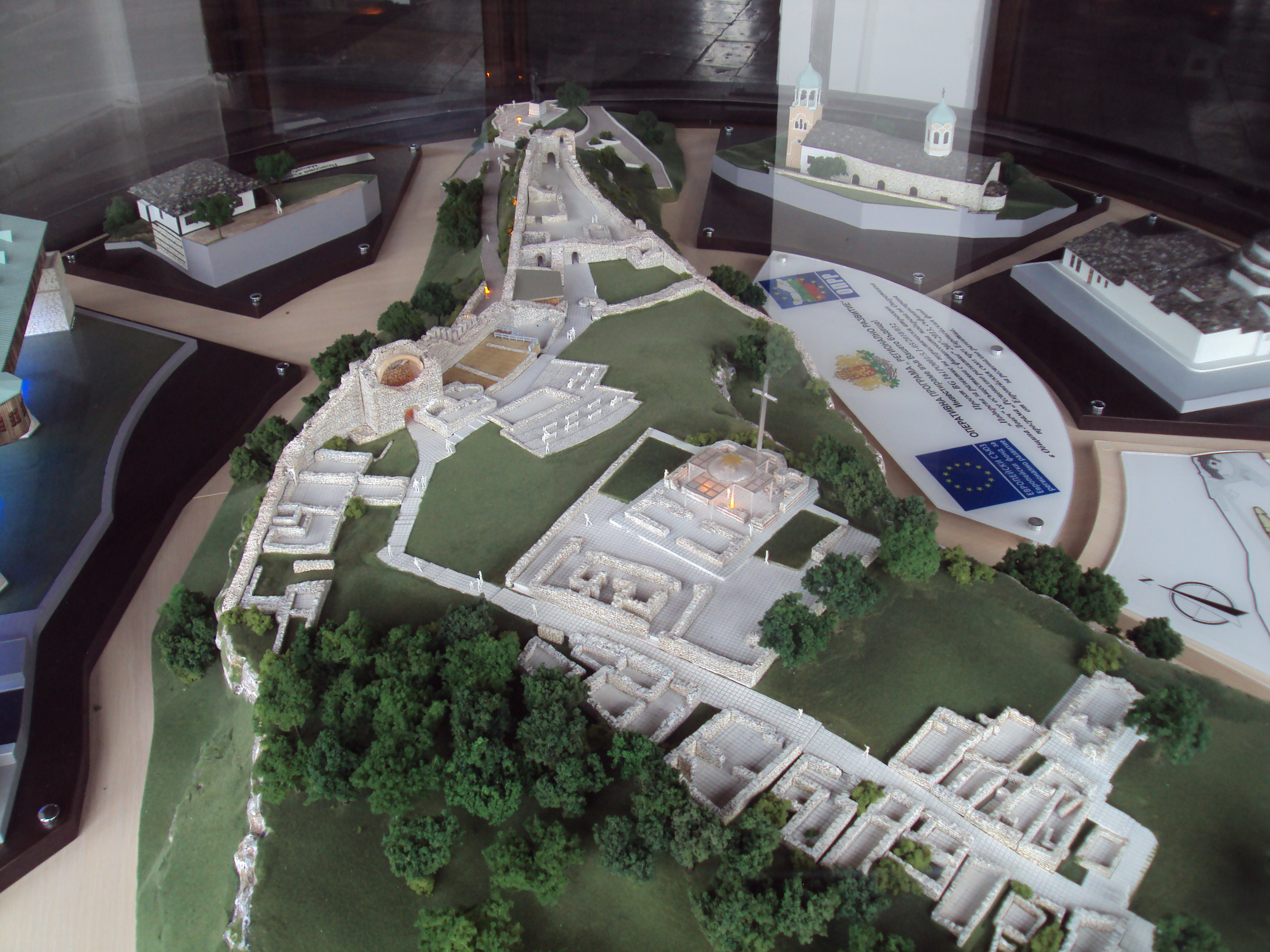 Hisarya, Lovech, Bulgaria